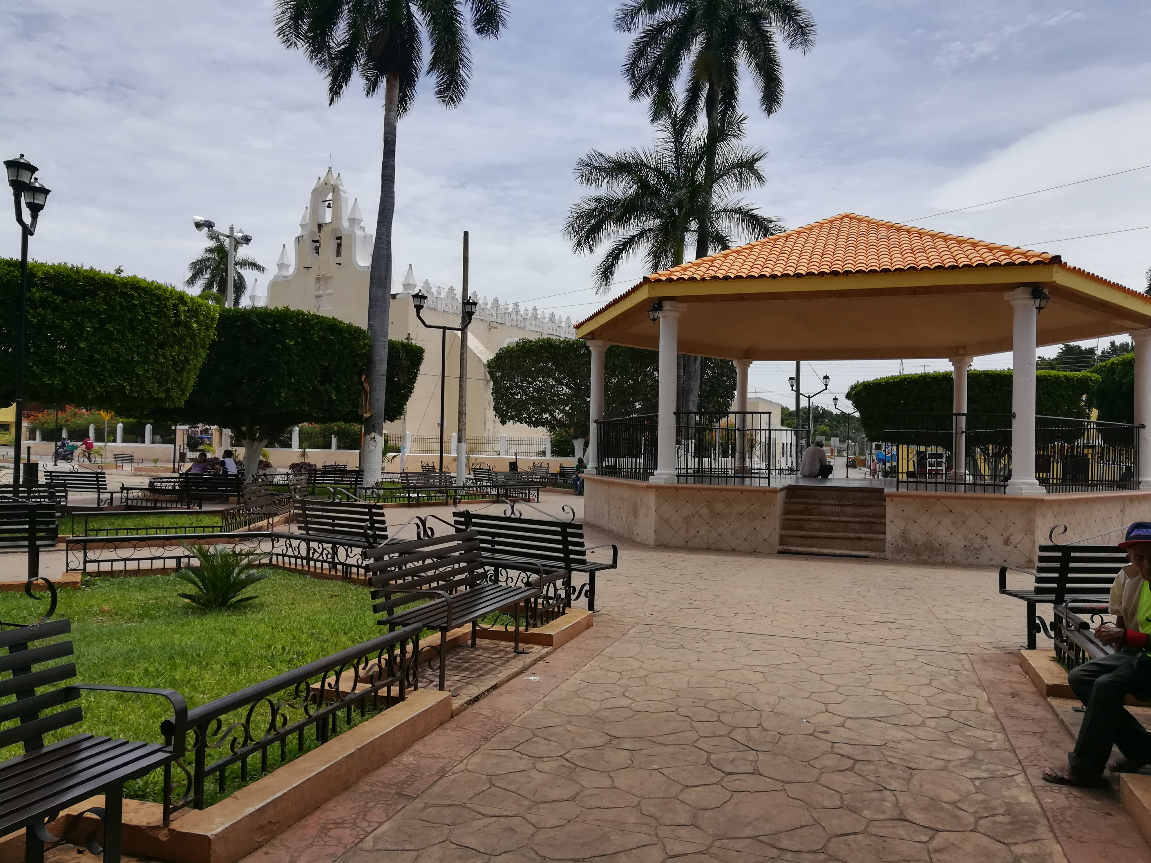 Parque principal de Tekit, Yucatan, 2017